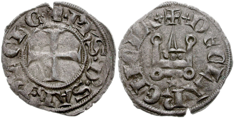 Crusaders, Frankish Possessions in Greece, Principality of Achaea. Philippe de Savoie. 1301-1307. Billon Denier Tournois (19mm, 0.77 g, 7h). Type 1. Cross pattée Châtel tournois; quatrefoils flanking initial cross; star below. Metcalf, Crusades 973-975; CCS 19. Achaea: de, en, fr, hu, it, ja, pl, sk